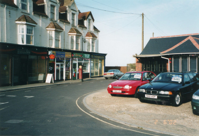 Shops and garage, Marine Drive, Barton-on-sea. This picture was taken with a film camera in June 2002. It's a couple of years since I've been home to the UK (I live in Oz) and I suspect the used car garage may be no more. The cliffs are about 100 metres to the right, out of frame, and the southern end of Barton Court Avenue is about 40 metres ahead.